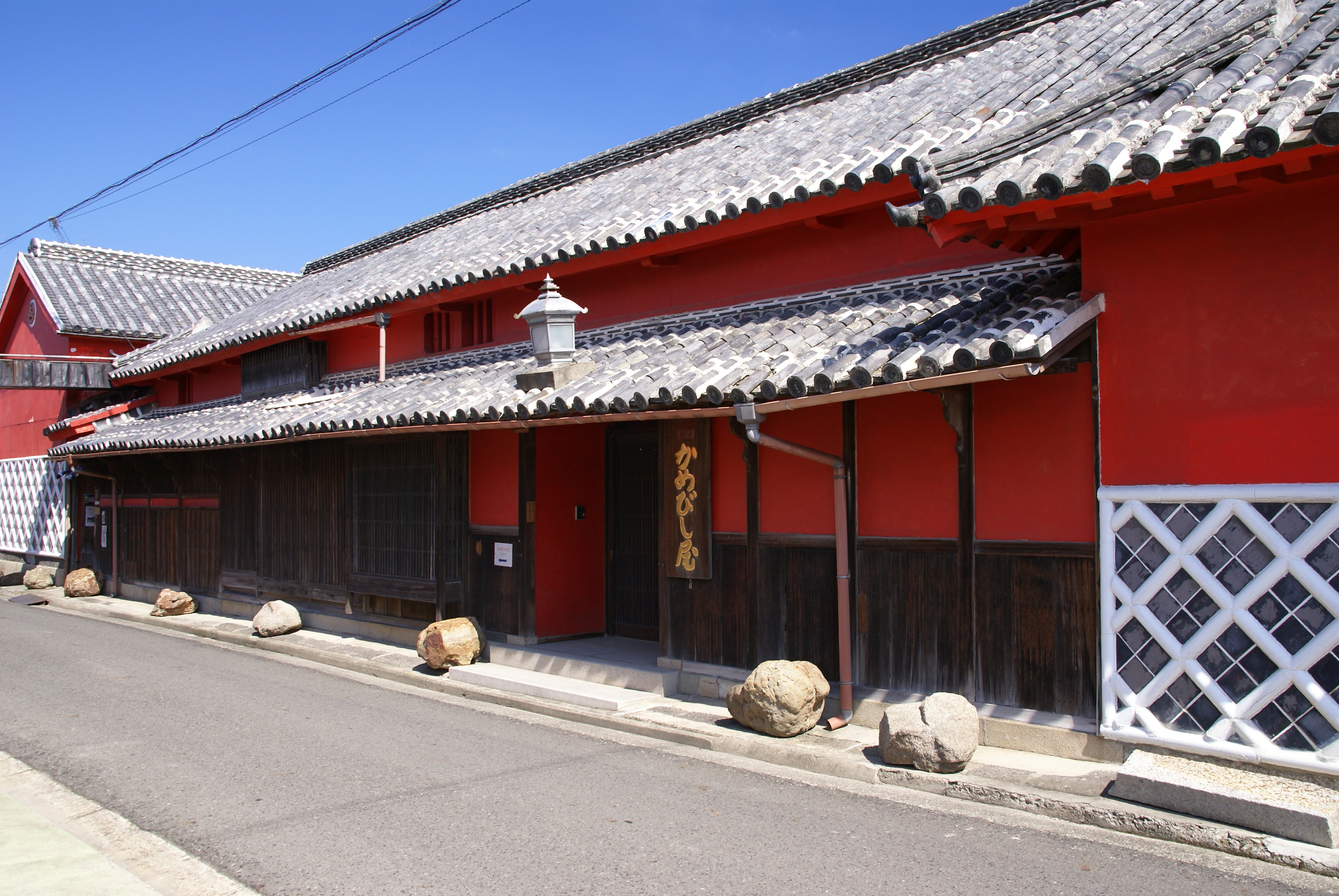 Kamebishi-ya in Hiketa, Higashikagawa, Kagawa prefecture, Japan